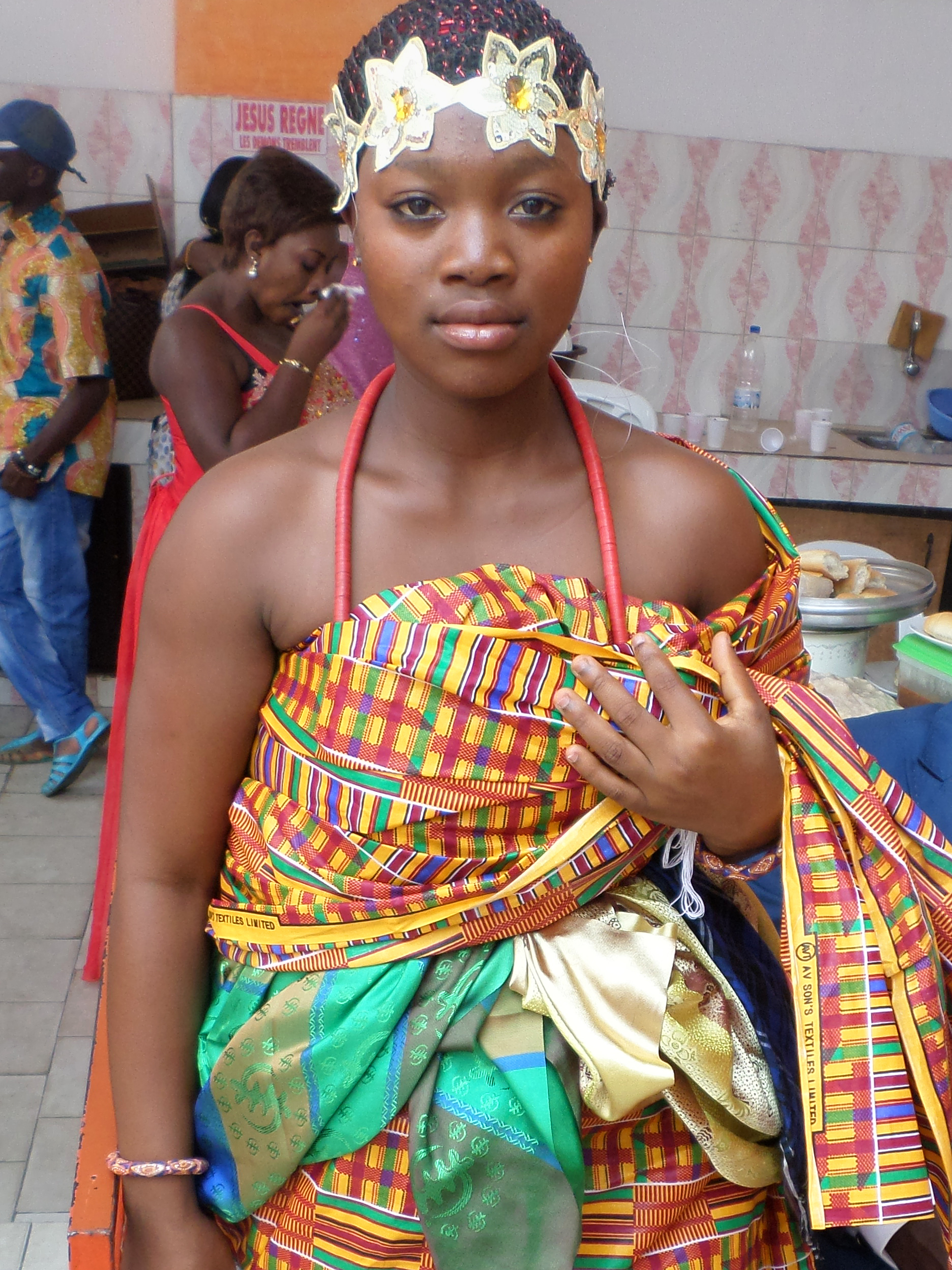 This is an image of Cultural Fashion or Adornment from Ivory Coast